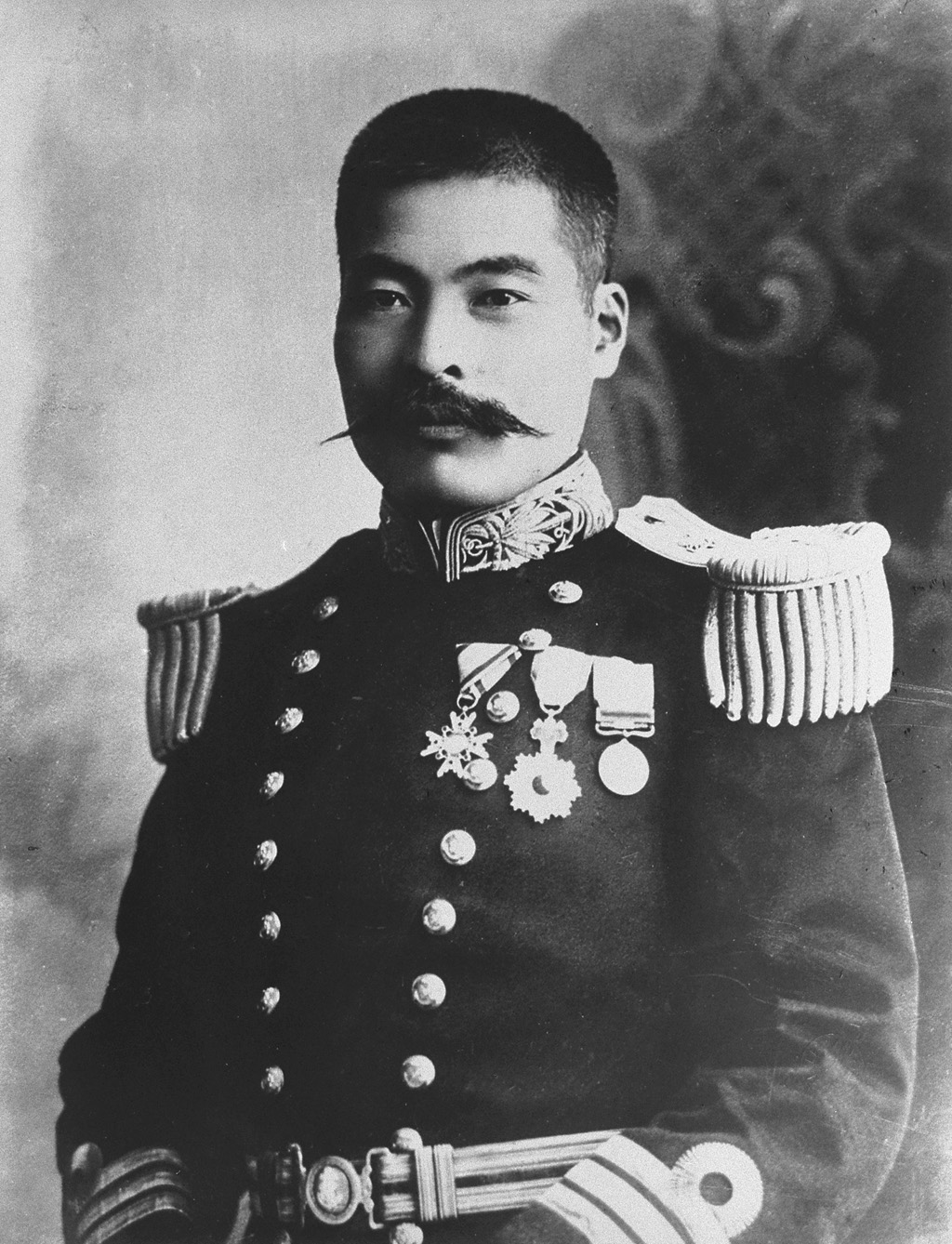 Portrait of Hirose Takeo (広瀬武夫, 1868 – 1904)